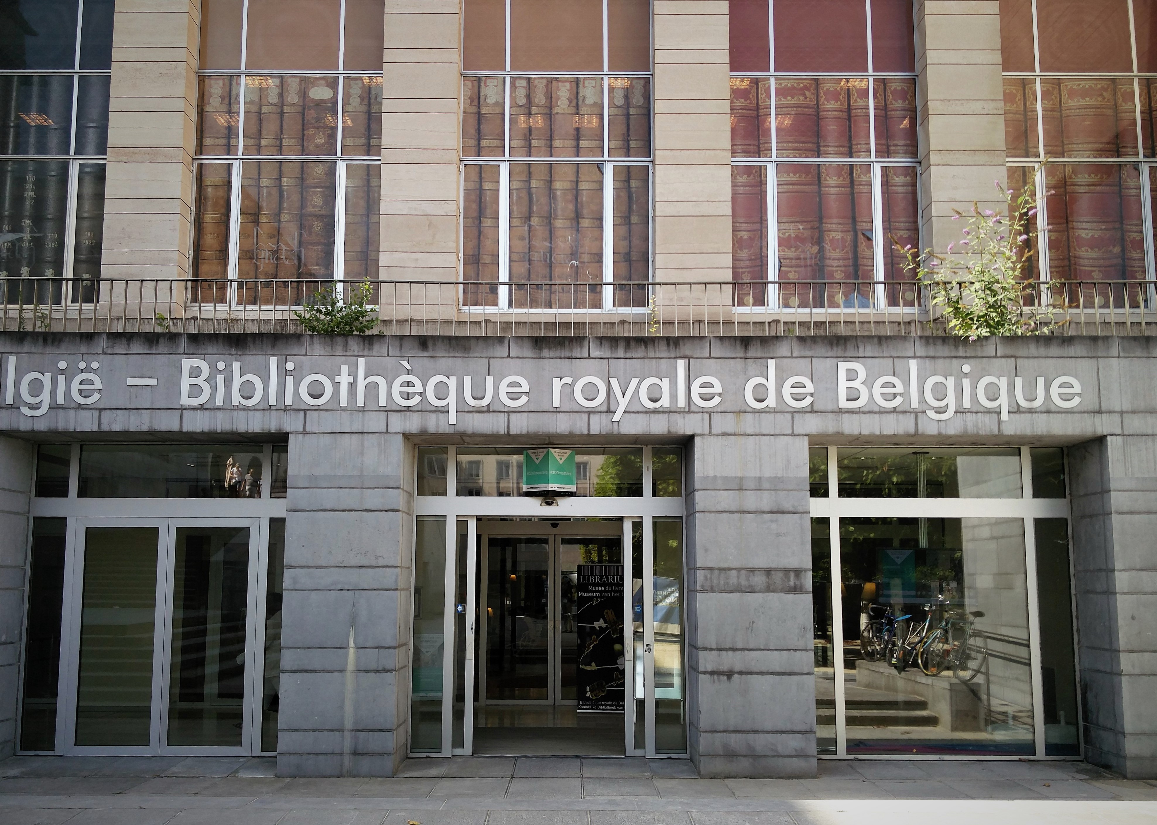 This is a file created at the museum: Royal Library of Belgium in Brussels